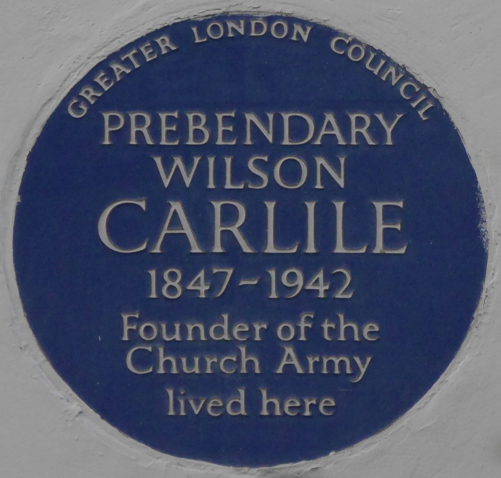 Wilson Carlile 34 Sheffield Terrace blue plaque